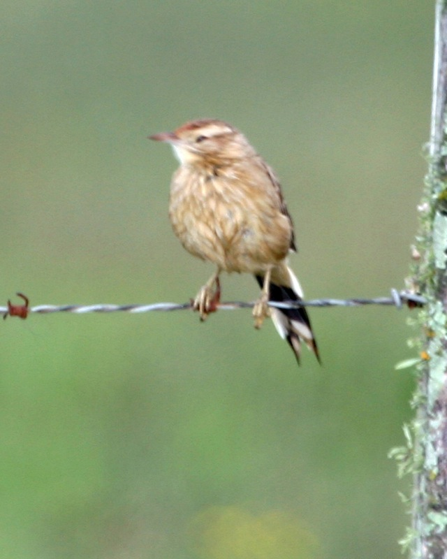 Firewood-gatherer (Anumbius annumbi) at Entre Rios, Argentina. Alt. Names: Lenadero, Wood-gatherer.